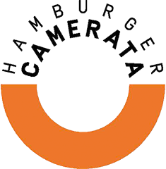 Logo of Hamburger Camerata